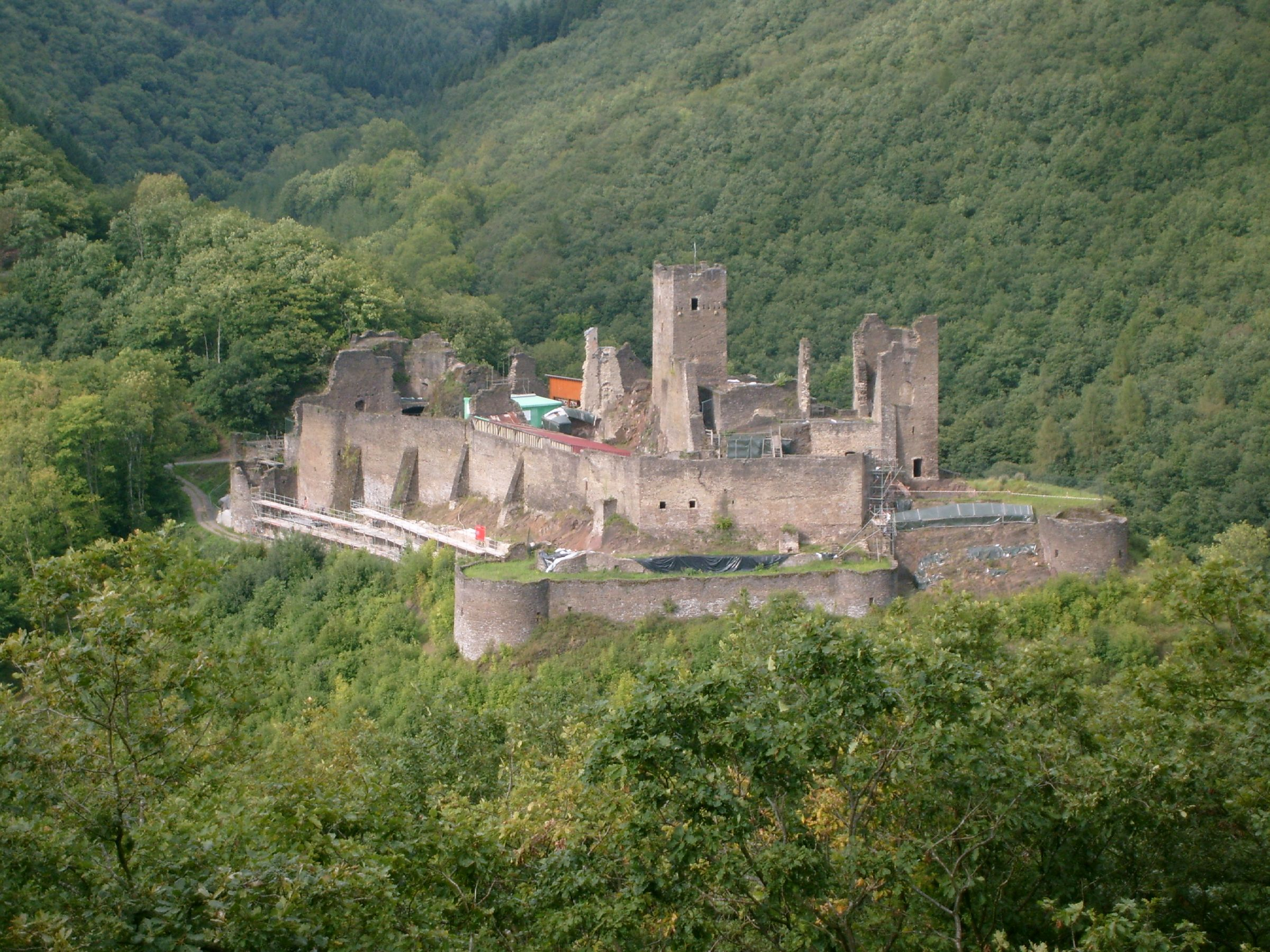 The Castle of Brandenbourg, Luxembourg. View from south, viewpoint on the hill named Köpp.